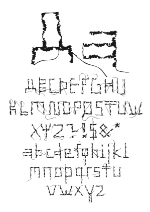 BC Šijan typeface by Petr Babák